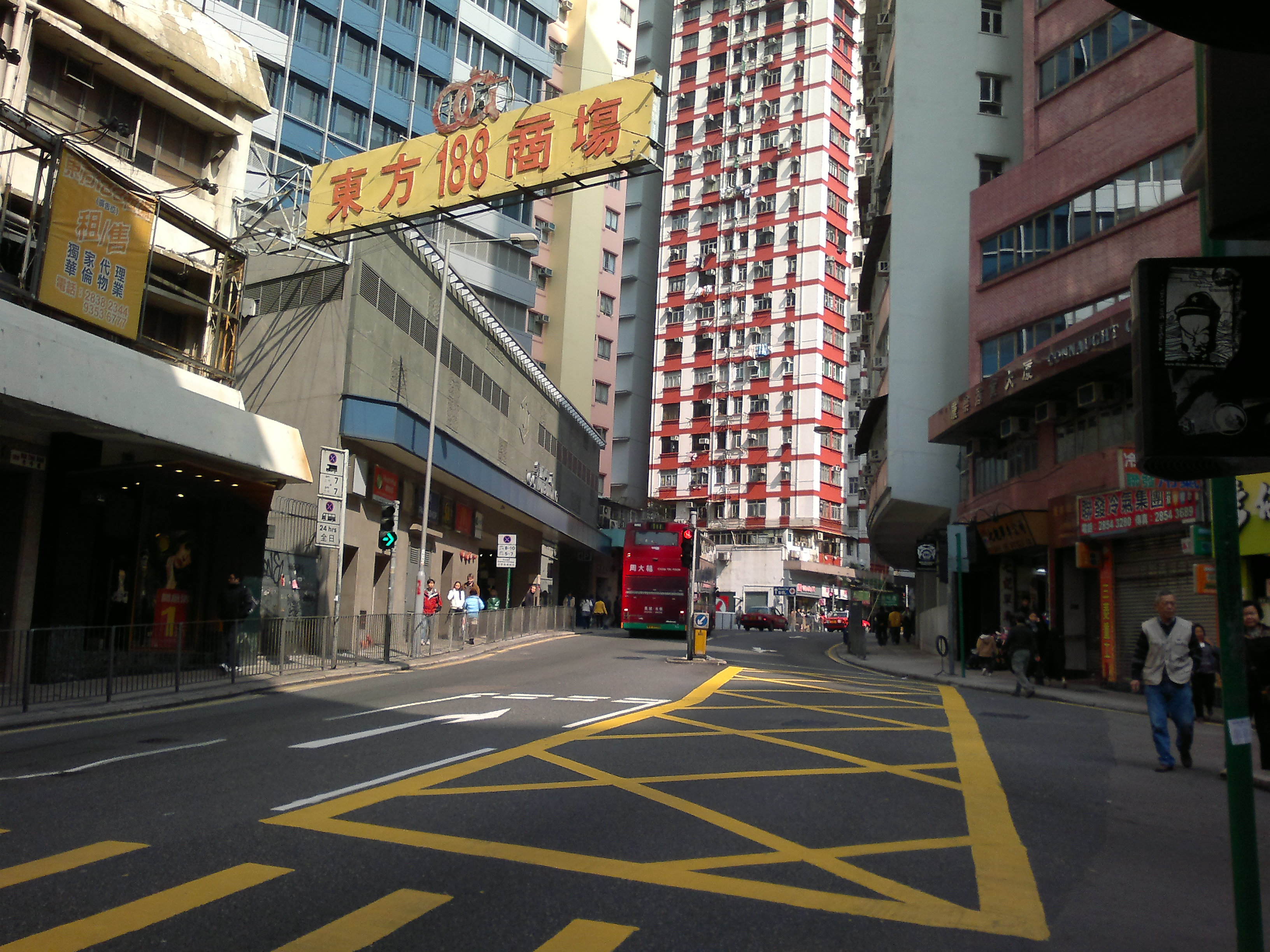 Wanchai Road near Wood Road